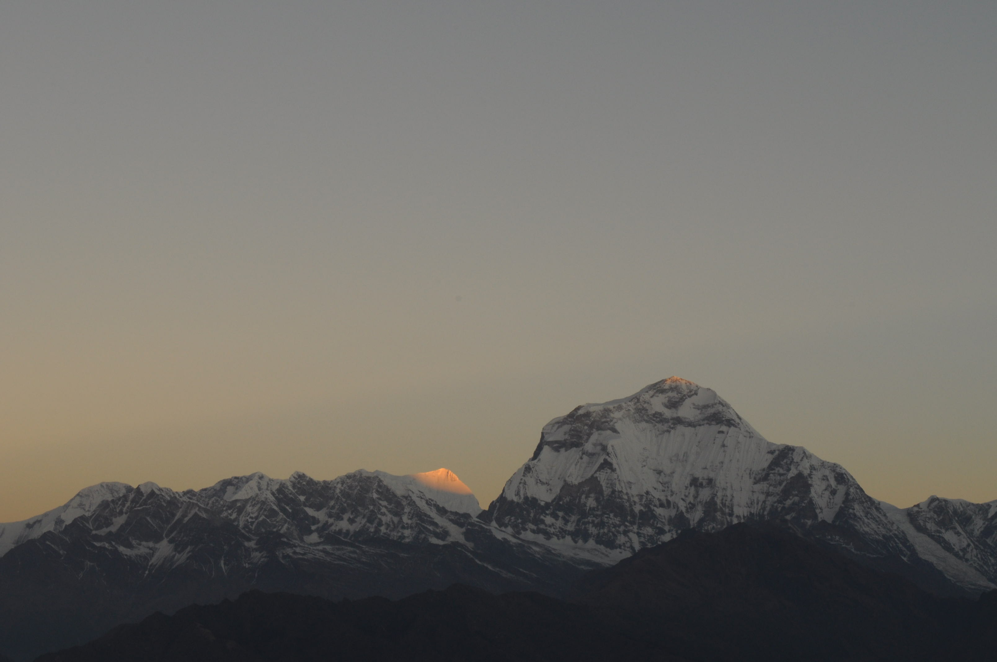 A view of Dhaulagiri Himal from Ghandruk